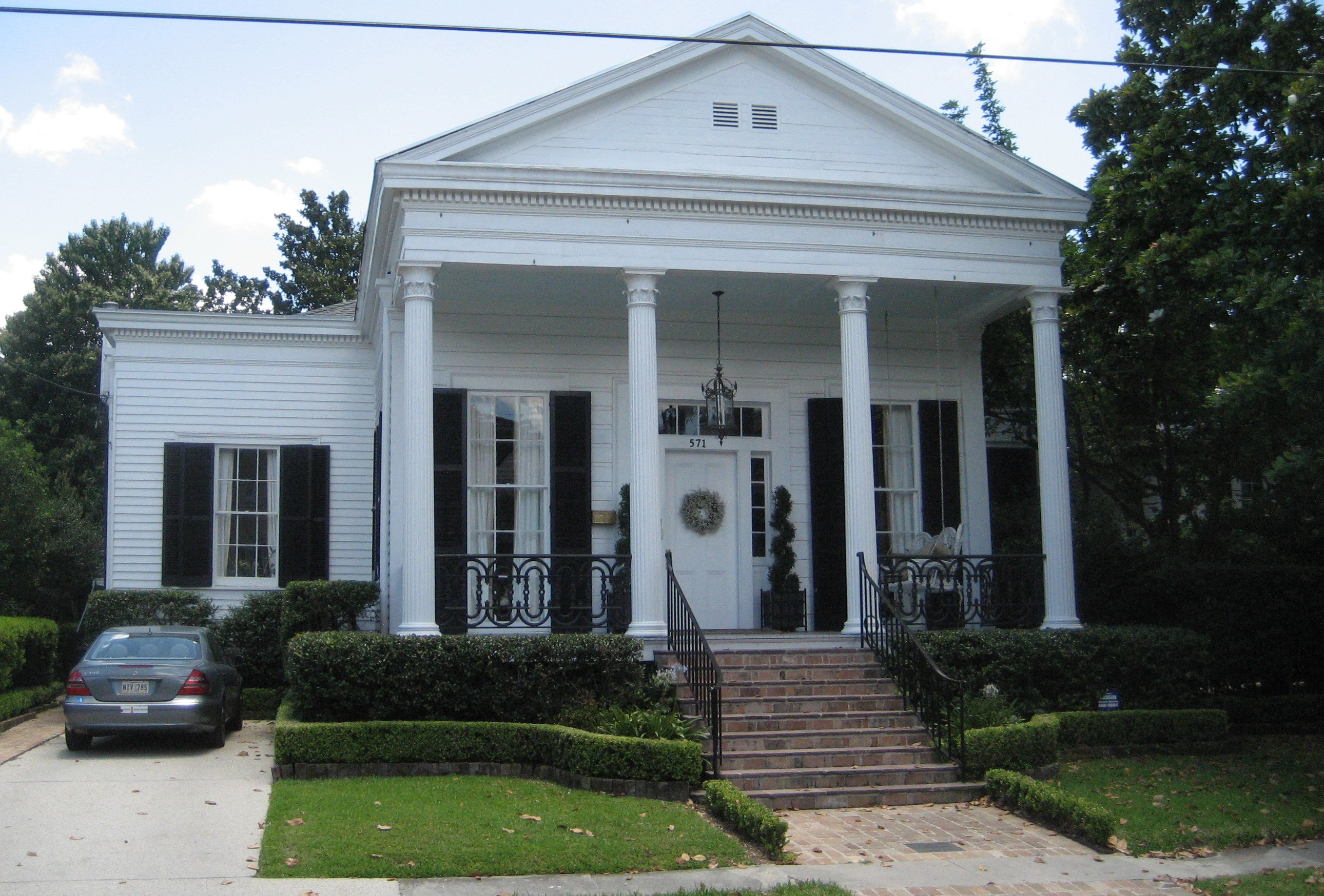 James Dillard House, New Orleans; view from front.